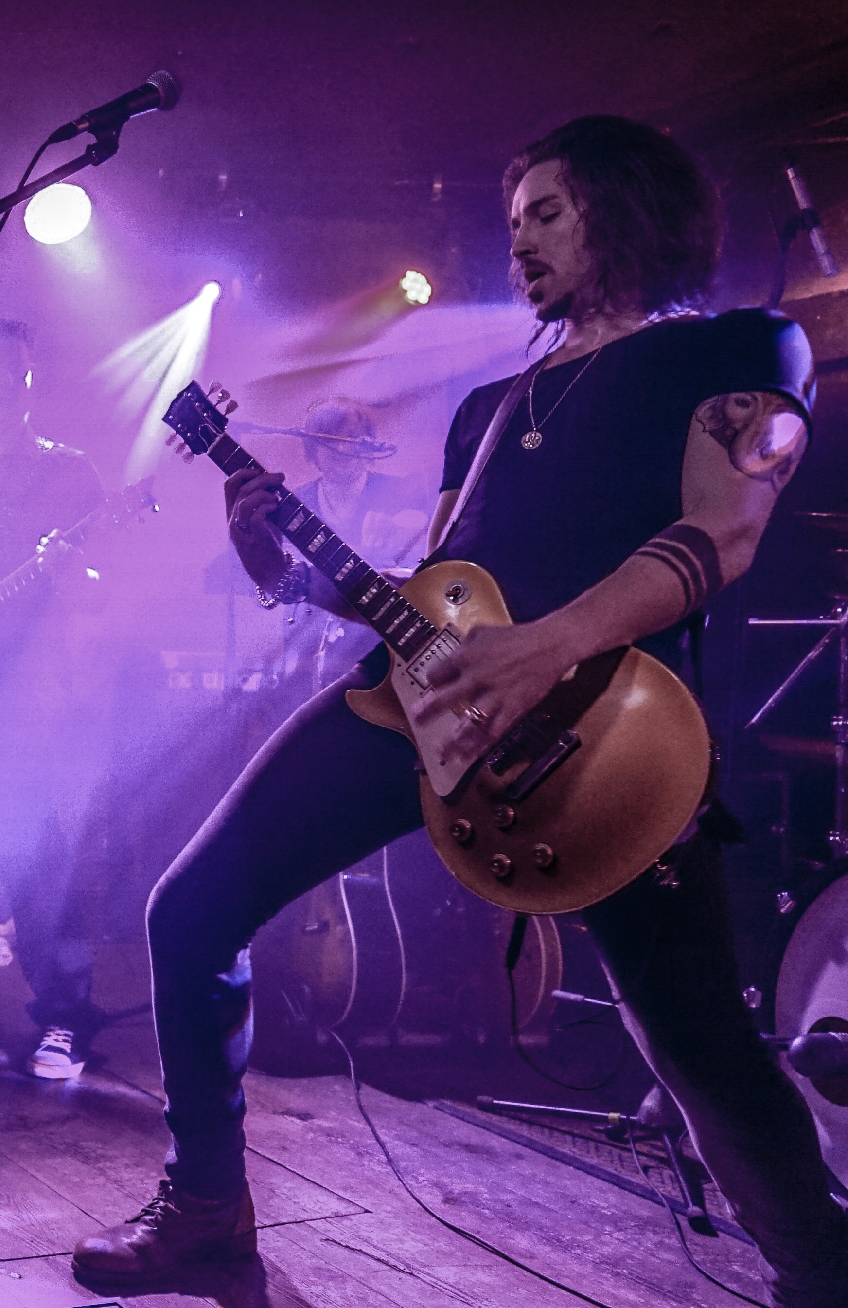 Gil Ofarim Konzert 20 Years-Tour im Badehaus Berlin, 2018